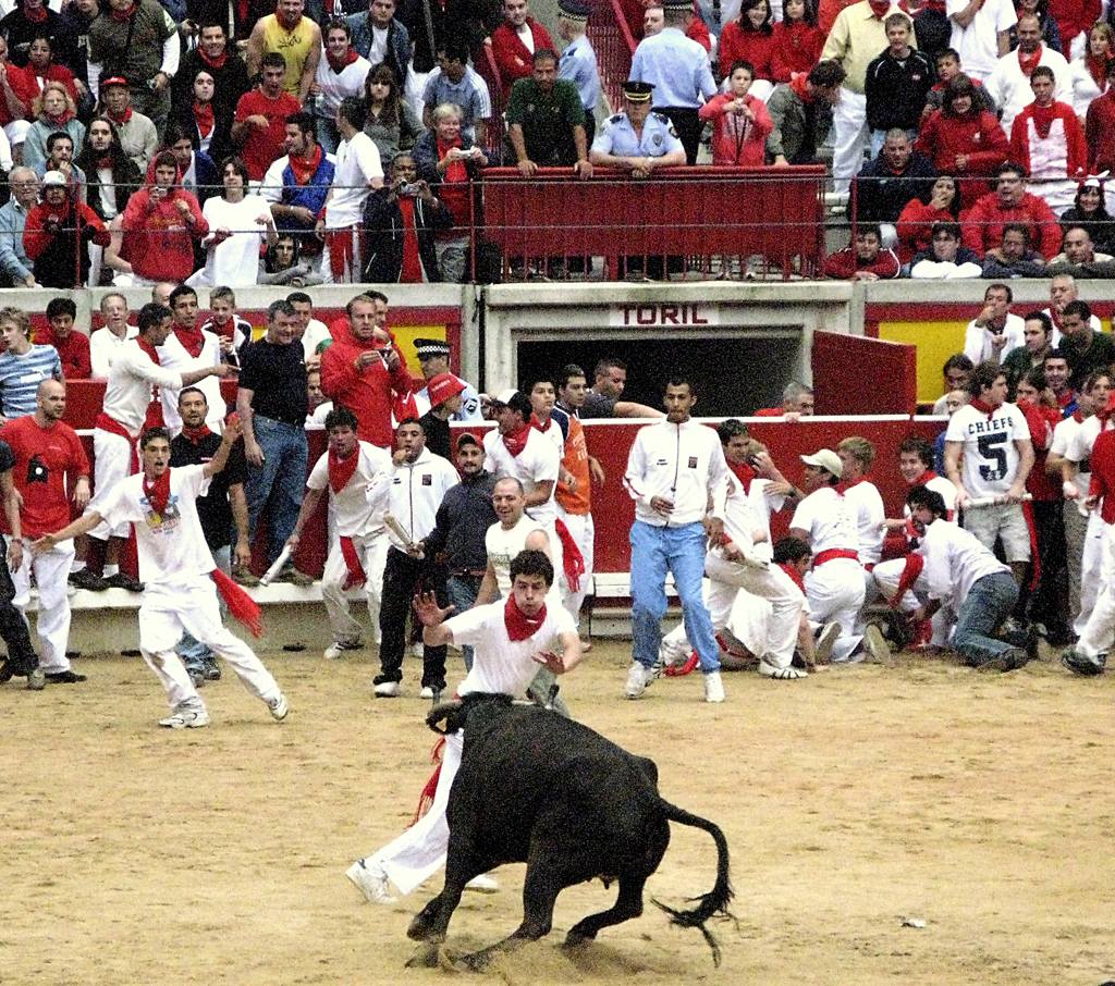 Sanfermines Vaquillas in Pamplona, Spain.